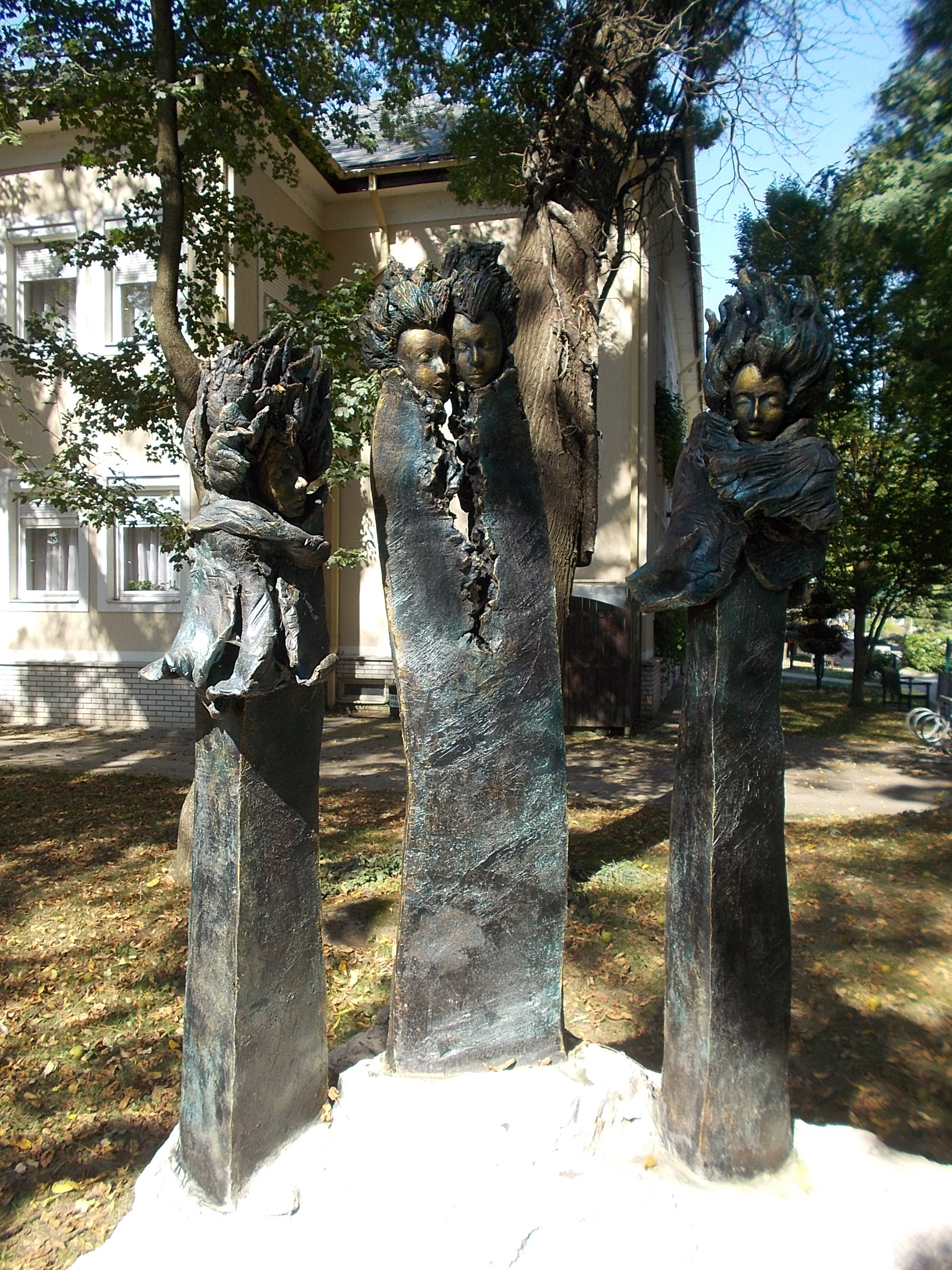 Statue of Dreamers by Gábor Varga (1987 modern cermic works, damaged after renovation its former brown-white colour changed to black, so now metal? or painted?) in the park of the Local History Museum, Hunyadi tér, Downtown, Dombóvár, Tolna County, Hungary.